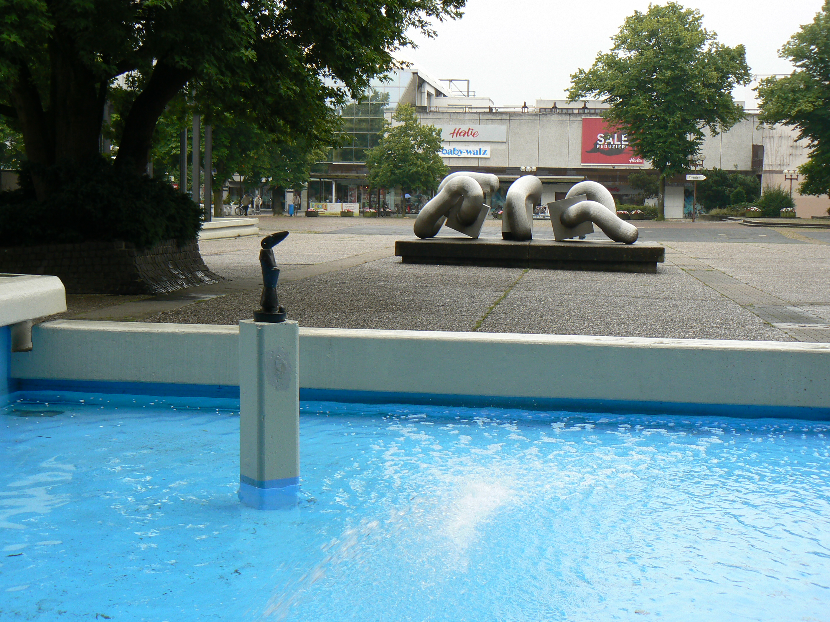 Collection: Skulpturenmuseum Glaskasten Location: City Center Marl/Germany Sculpture: Habakuk 4/6 (ca. 1934) Sculptor: Max Ernst